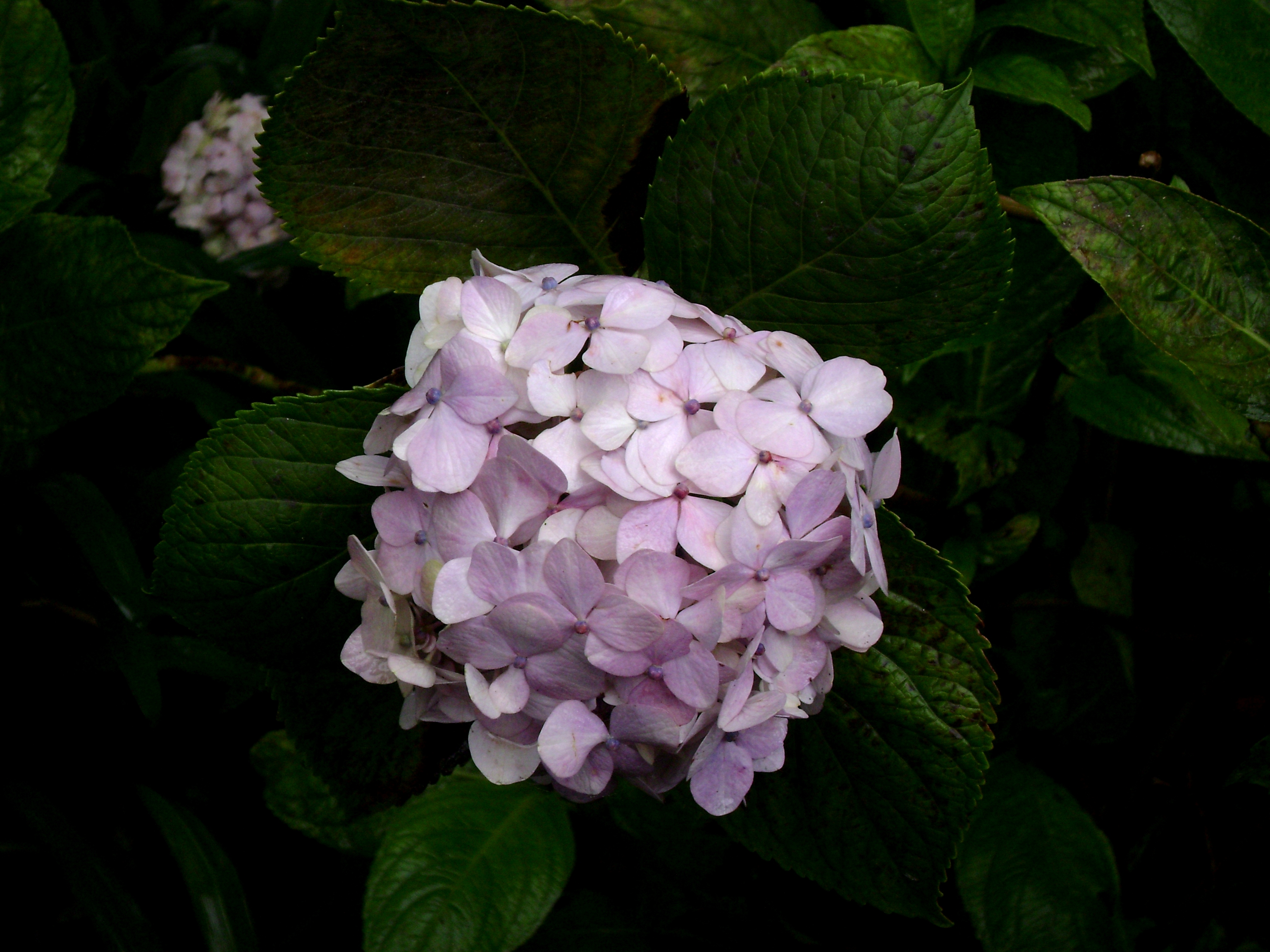 Hydrangea (Hortensia) flowers at the top of the "Cerro El Ávila" National Park, Venezuela. 9,072 ft above sea level.